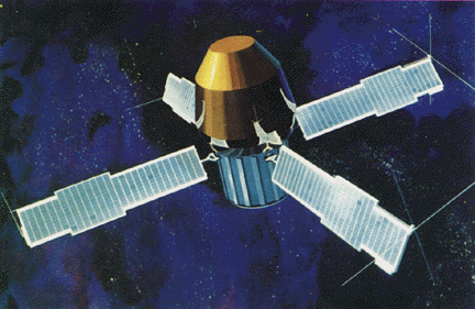 SAS-B was the second in the series of small spacecraft designed to extend the astronomical studies in the X-ray, gamma-ray, ultraviolet, visible, and infrared regions. The primary objective of the SAS-B was to measure the spatial and energy distribution of primary galactic and extragalactic gamma radiation with energies between 20 and 300 MeV. The instrumentation consisted principally of a guard scintillation detector, an upper and a lower spark chamber, and a charged particle telescope.